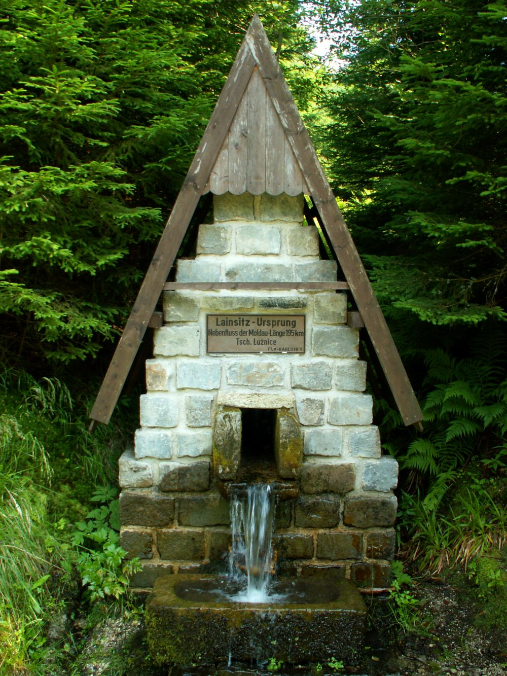 The source of the river Lužnice (Austria)